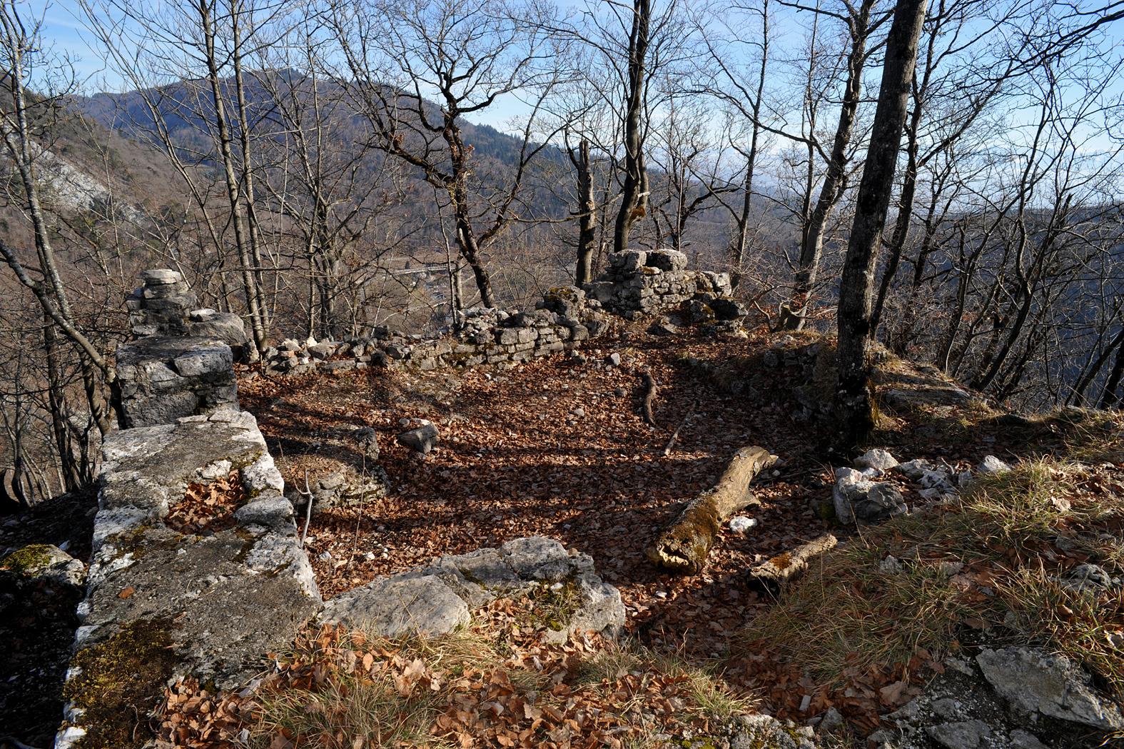 Rondchâtel, foundations of the Roman watch tower on the «Geissrücken» above Frinvillier; Berne, Switzerland.